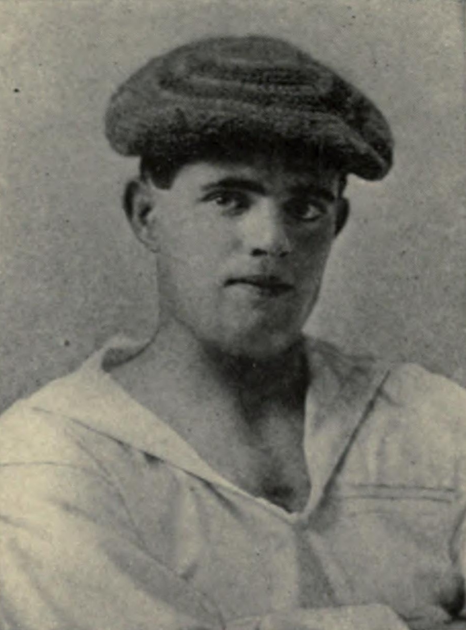 Jack London 1904